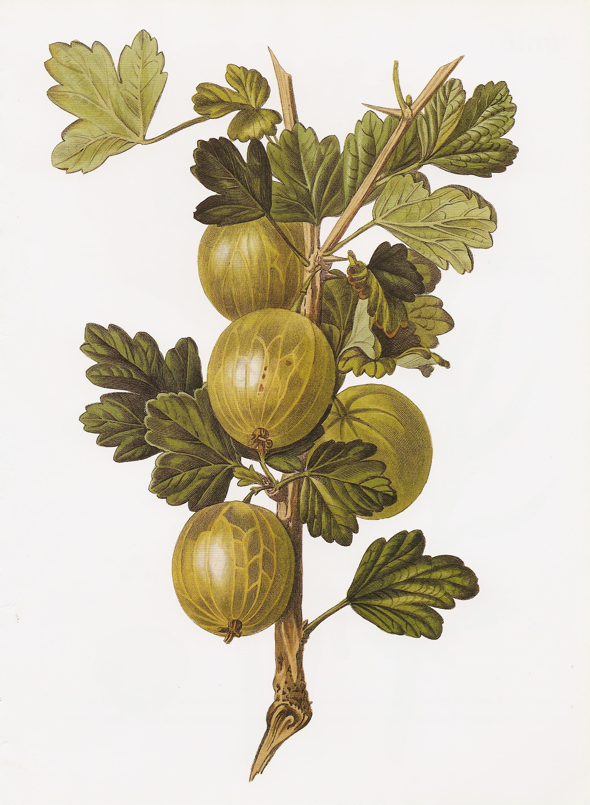 Gooseberry 'Crompton's Sheba Queen', a hand-coloured engraving after a drawing by Augusta Innes Withers (1792-1869), from the first volume of John Lindley's Pomological Magazine (1827-1828)